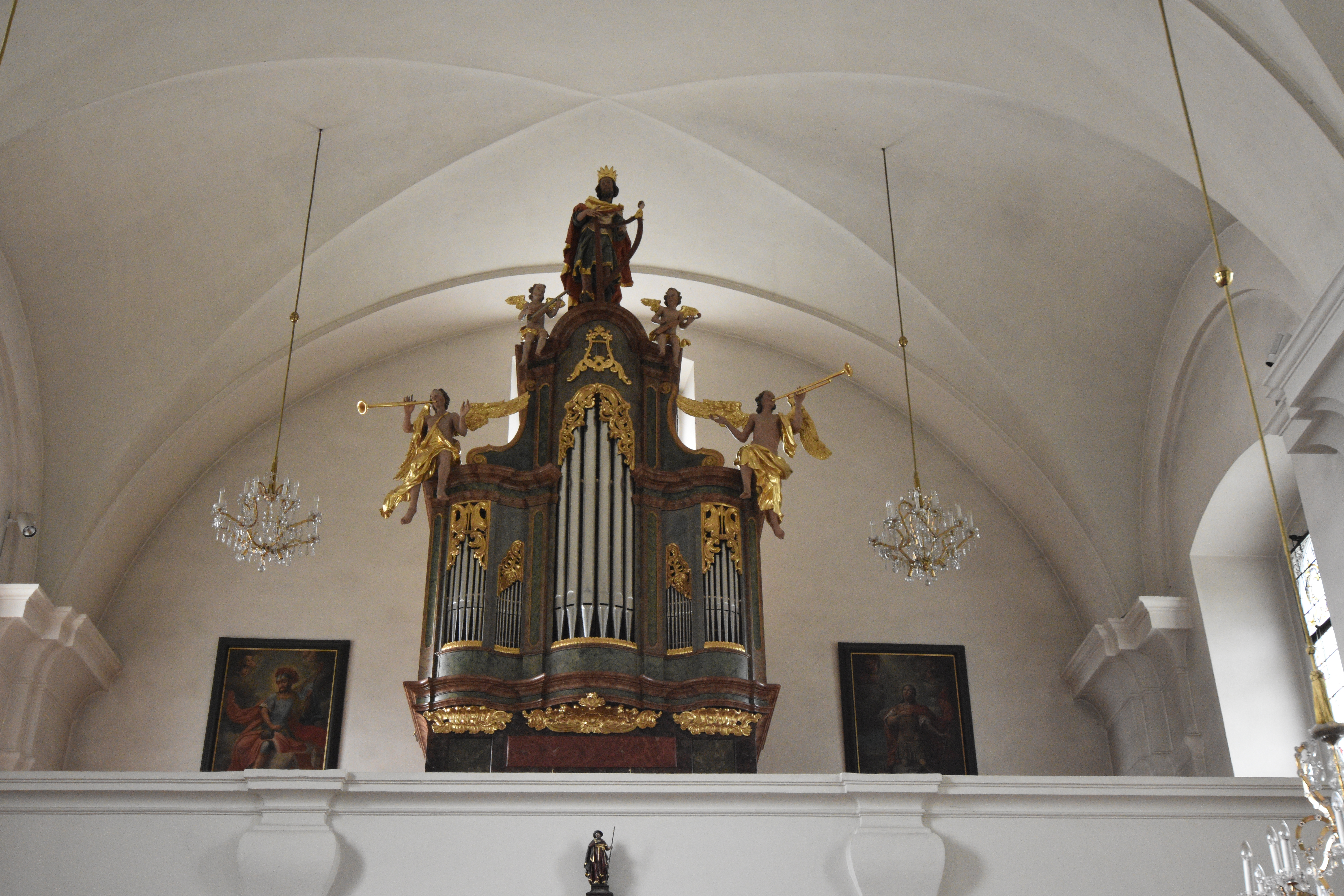 Pipe organs in Styria, Kaindorf